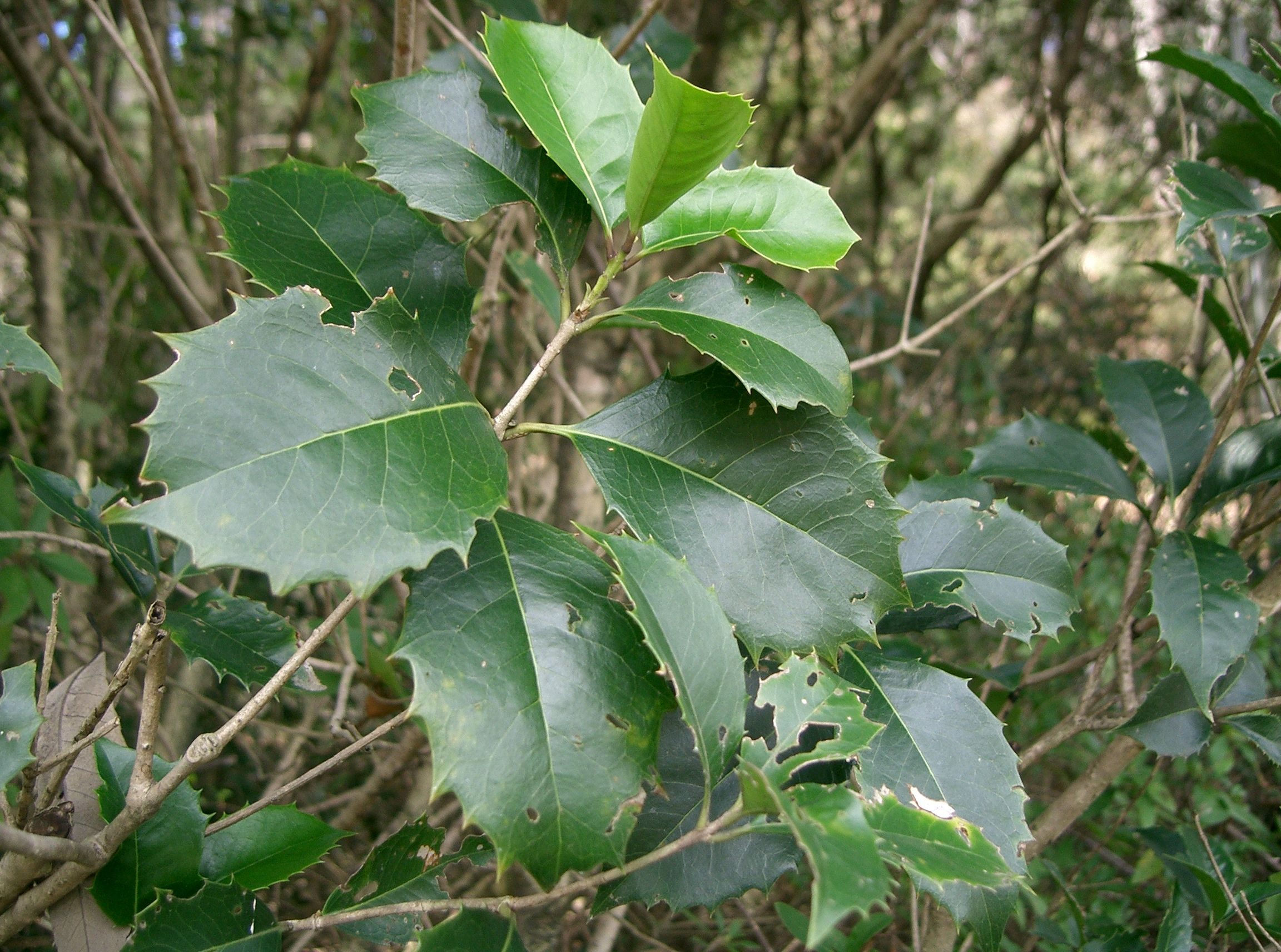 Osmanthus x fortunei